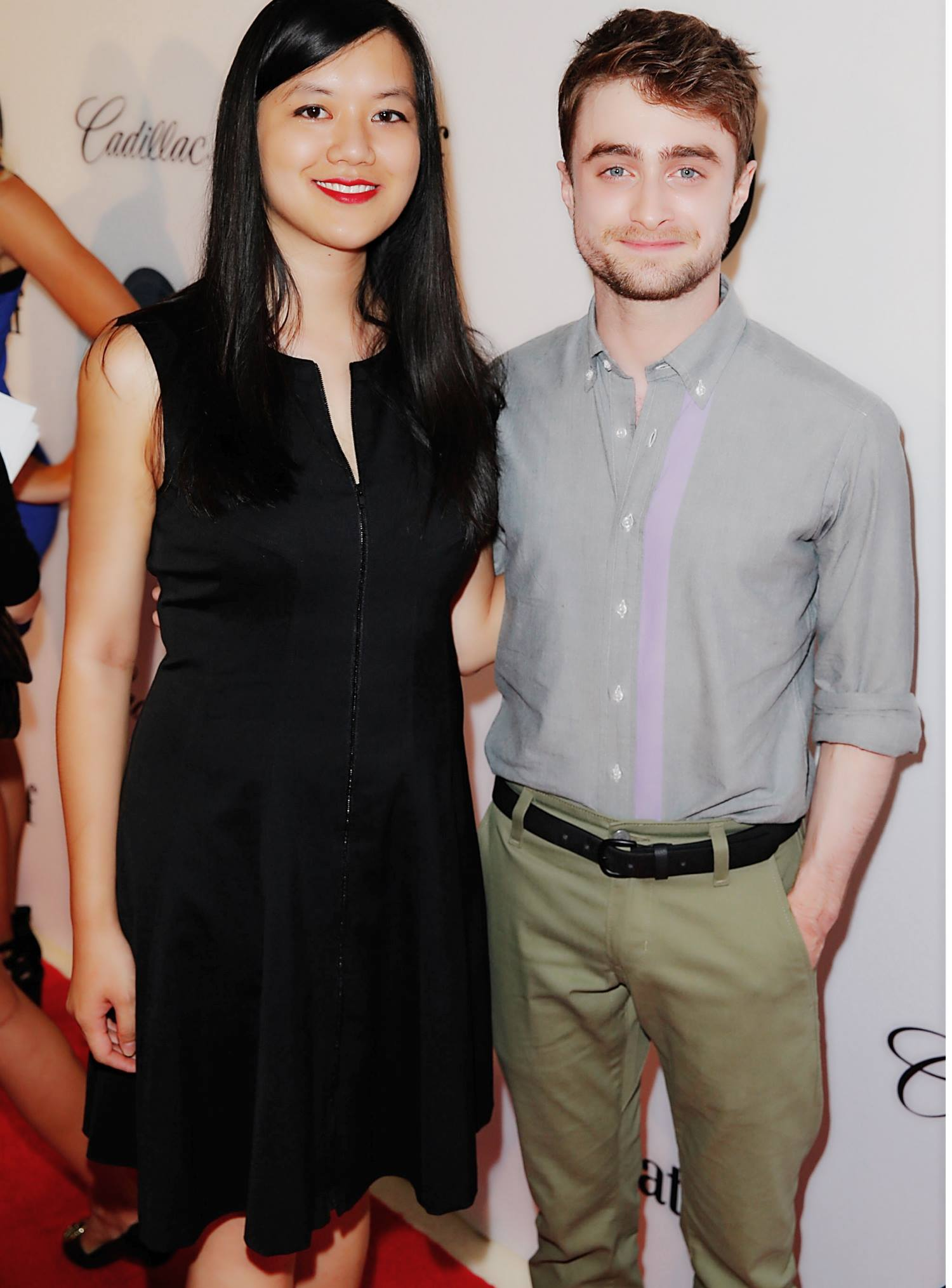 Pham and Radcliffe in 2016.